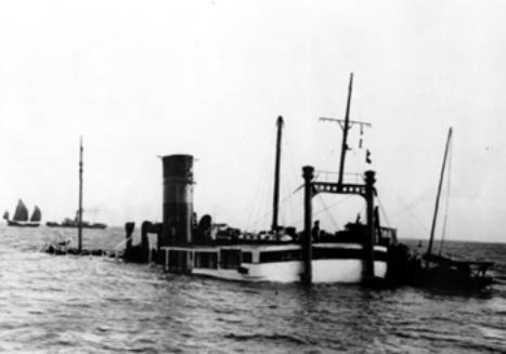 Sunk of SS Kiangya